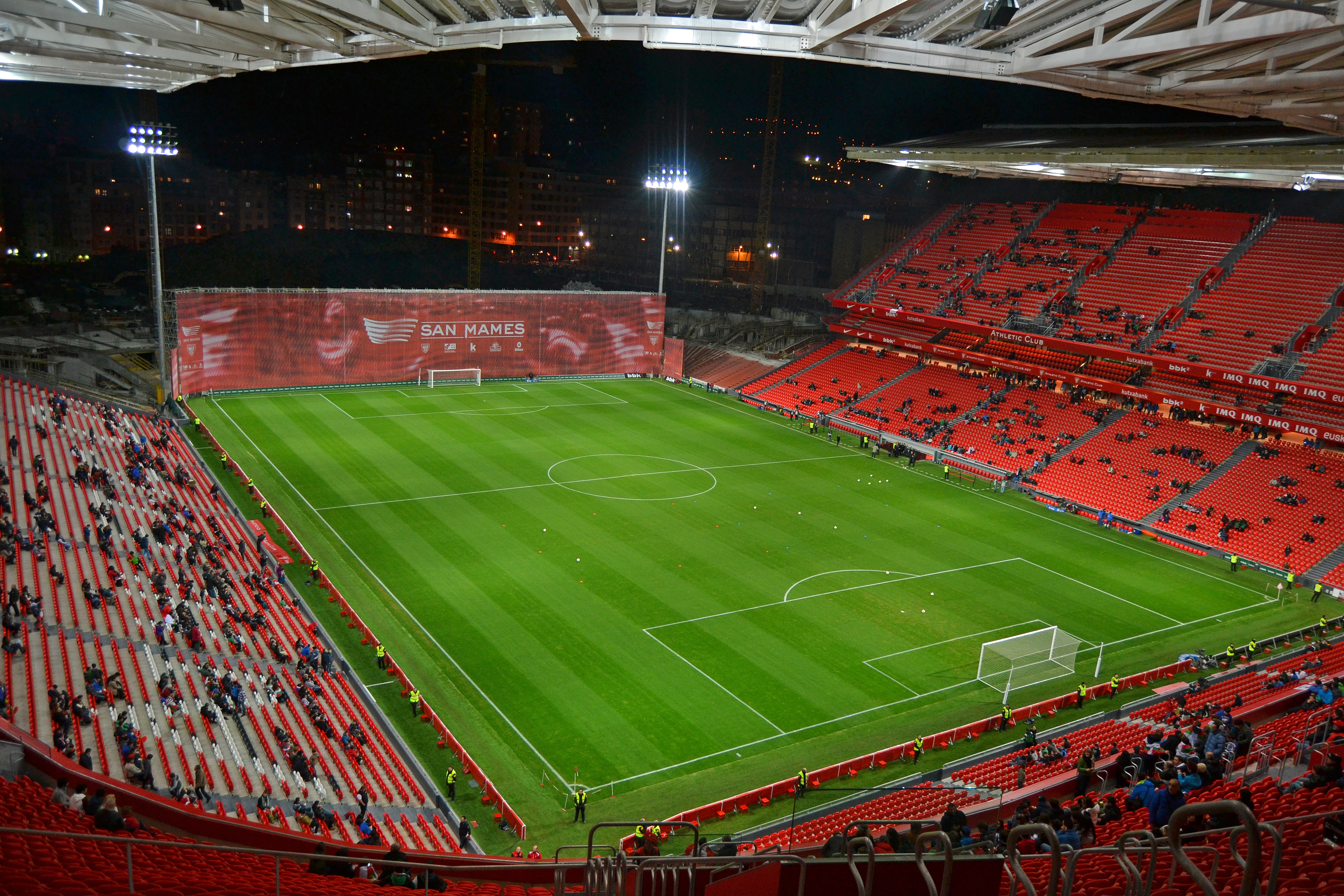 Prolegomenon of Basque National Football Team Vs Peru National Football Team, 28th December 2013. San Mames Stadium, Bilbao. Bizkaia, Basque Country.